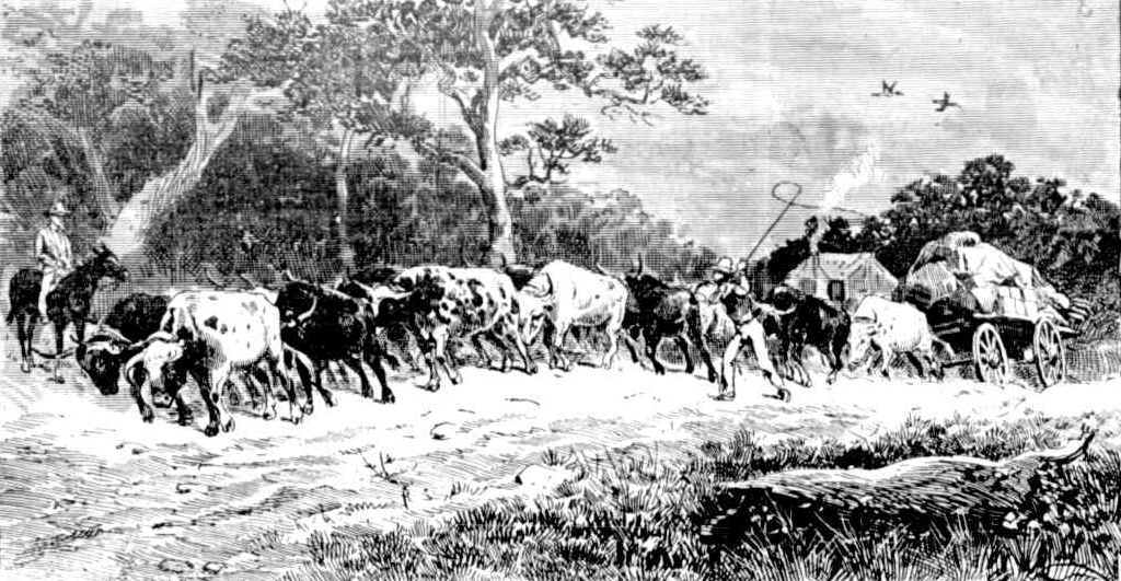 Illustration of bullock team